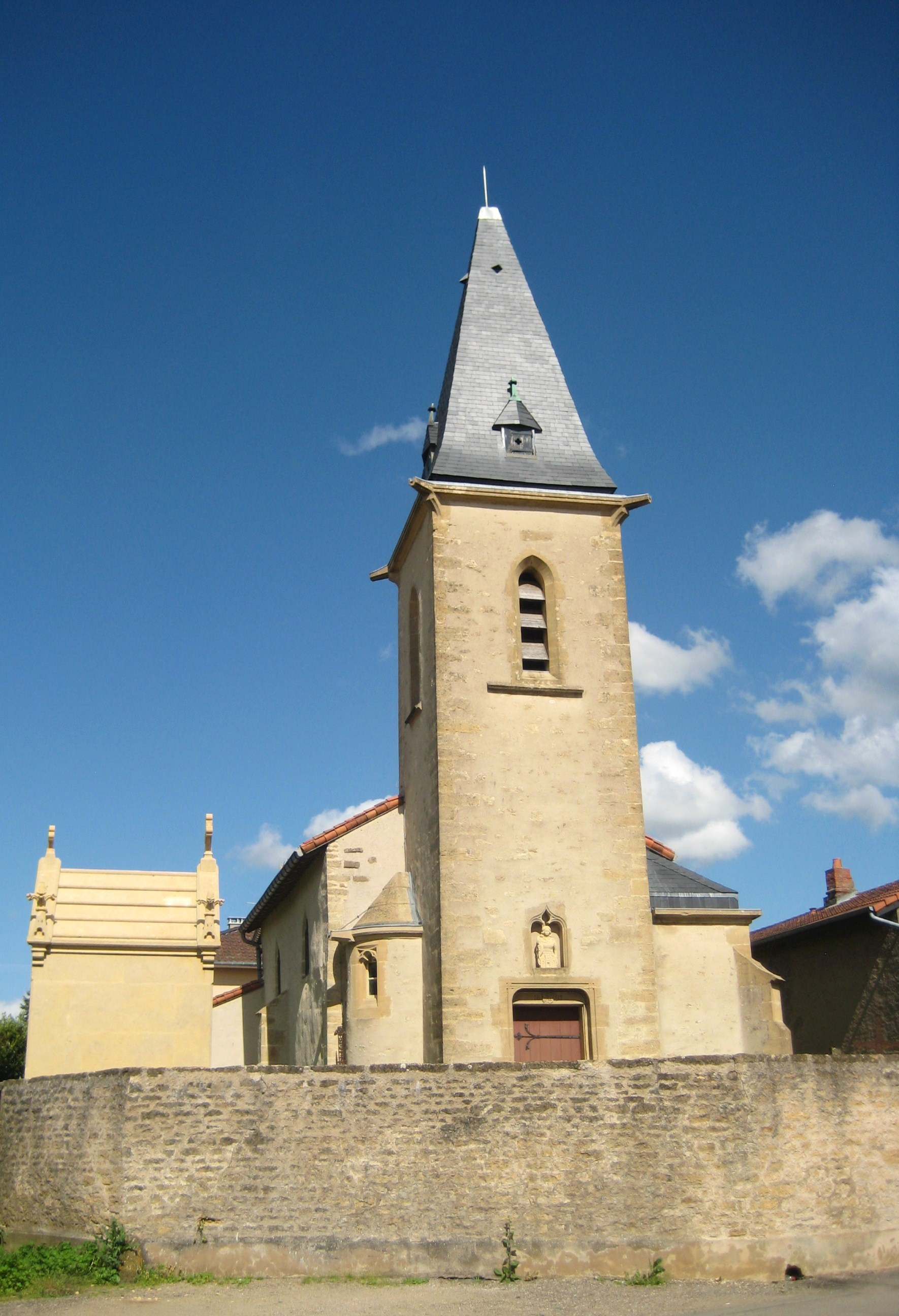 Description Église Saint-Georges Date18 May 2009Sourcemon appareil photoAuthorAimelaime Église Saint-Georges